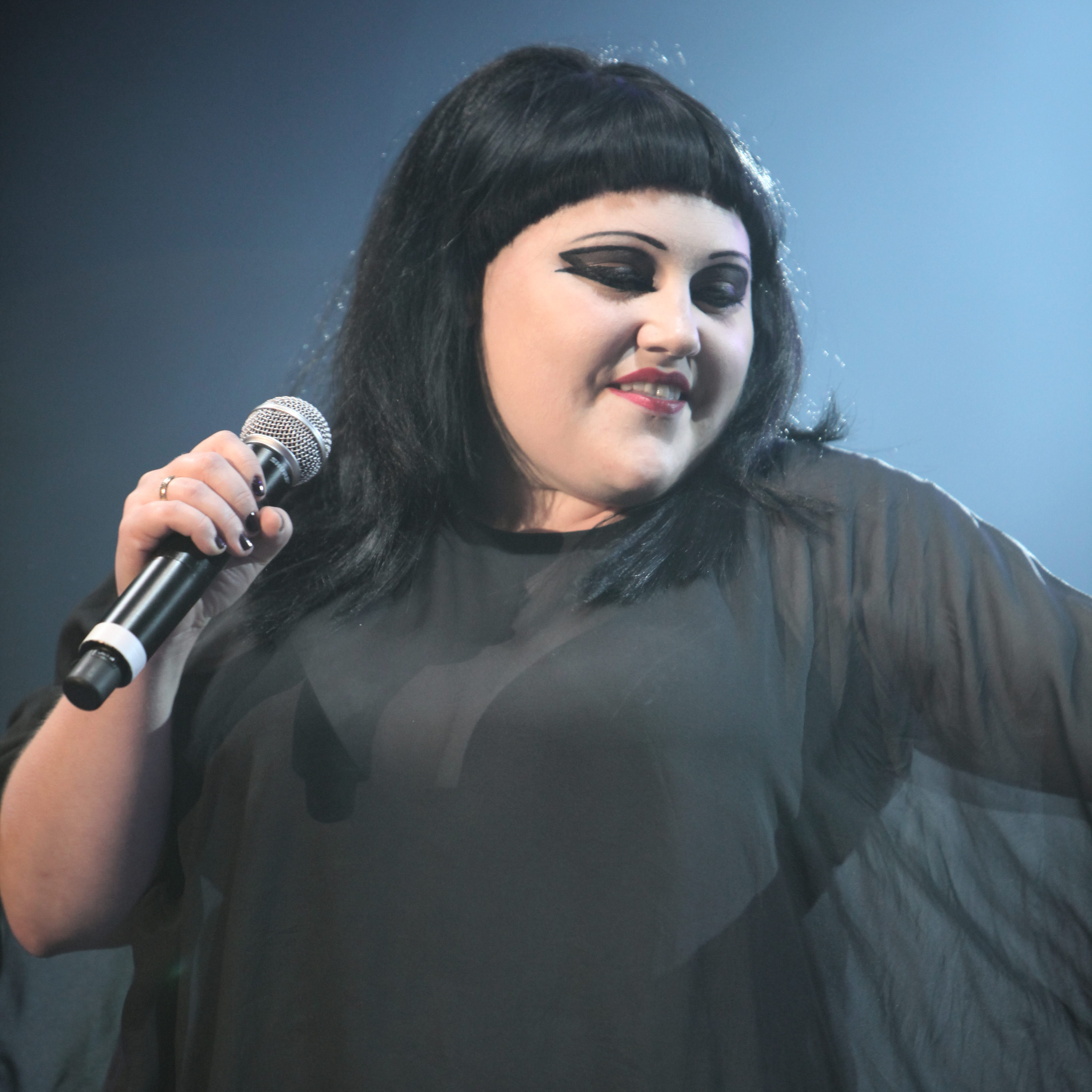 Beth Ditto at the Eurockéennes de Belfort 2011 The making of this document was supported by Wikimedia CH. (Submit your project!) For all the files concerned, please see the category Supported by Wikimedia CH.